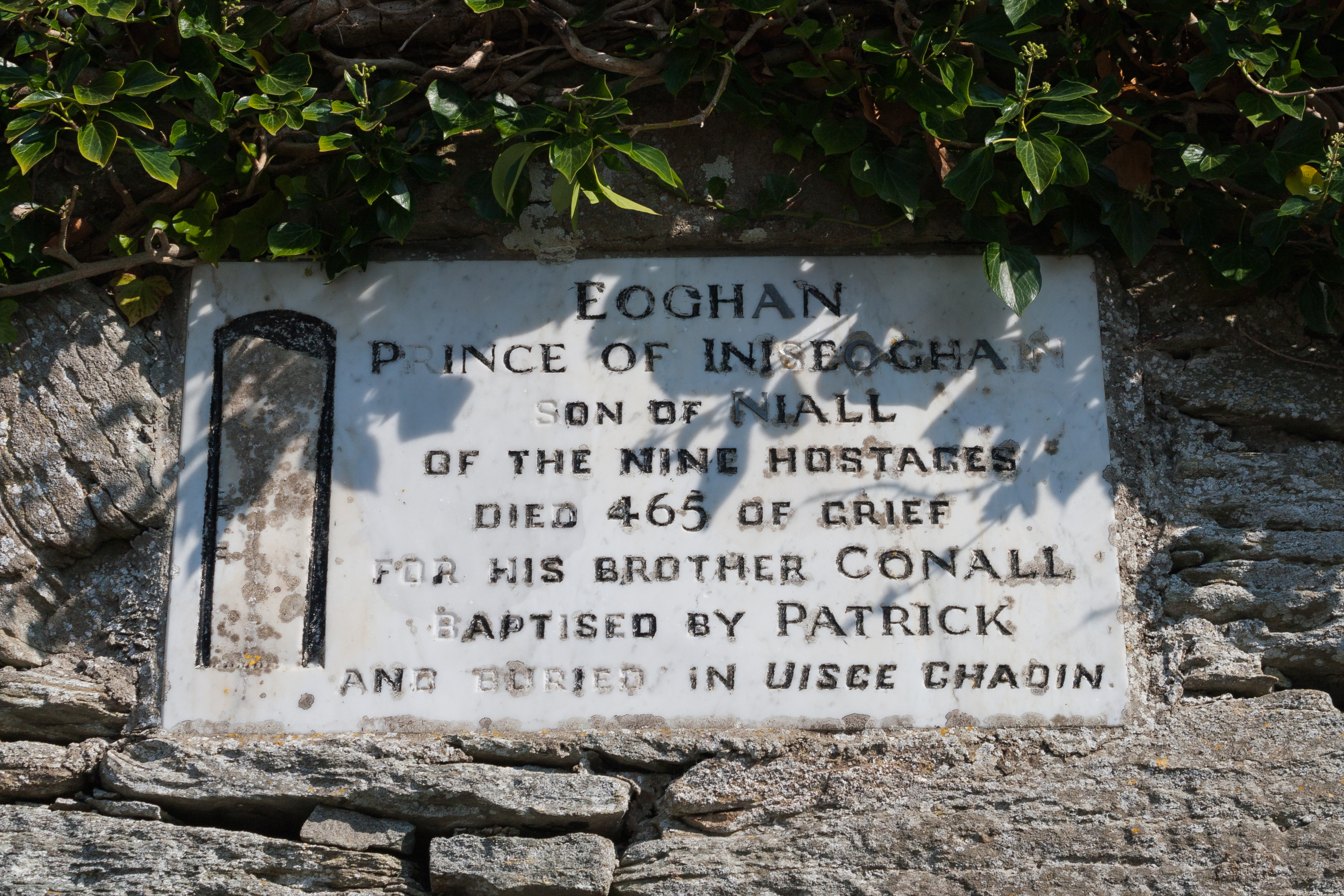 Plaque at the west gable of the old church in Eskaheen. The inscription reads: Eoghan, Prince of Iniseoghan, son of Niall of the nine hostages, died 465 of grief for his brother Conall baptised by Patrick and buried in Uisce Chadin.